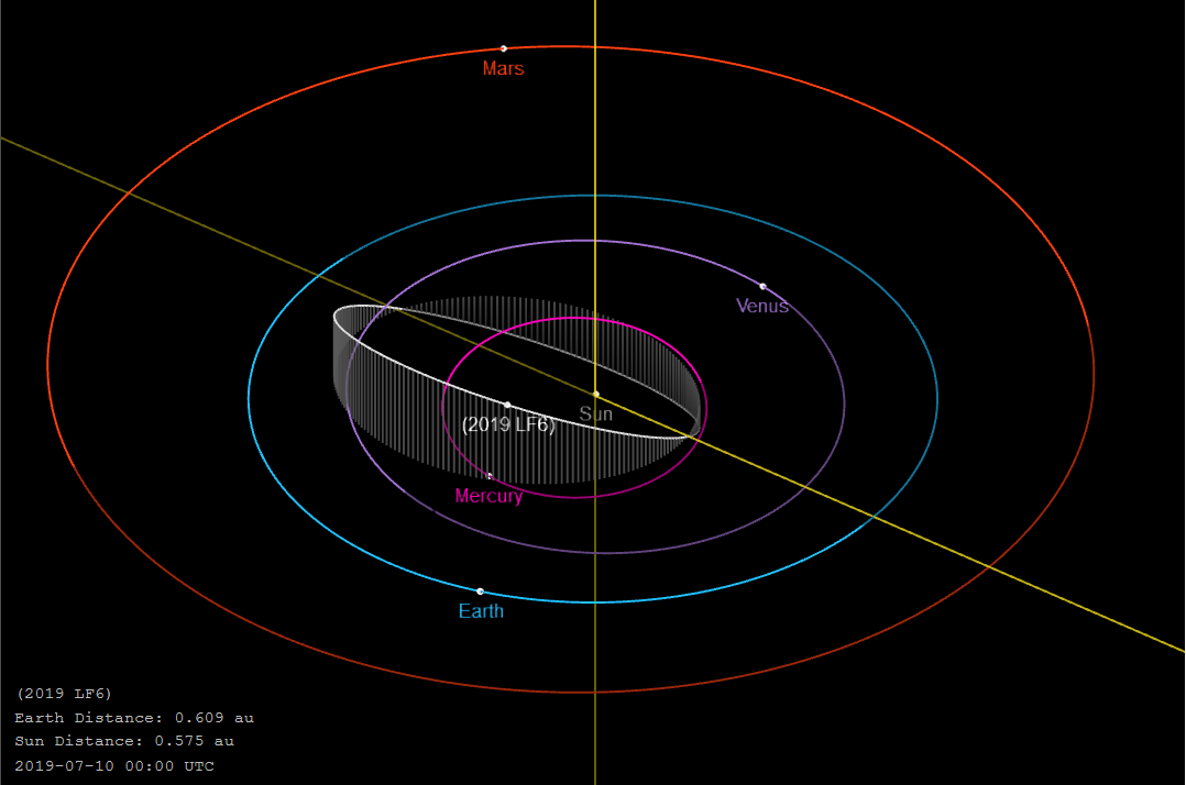 Orbit of 2019 LF6 with position on July 10, 2019